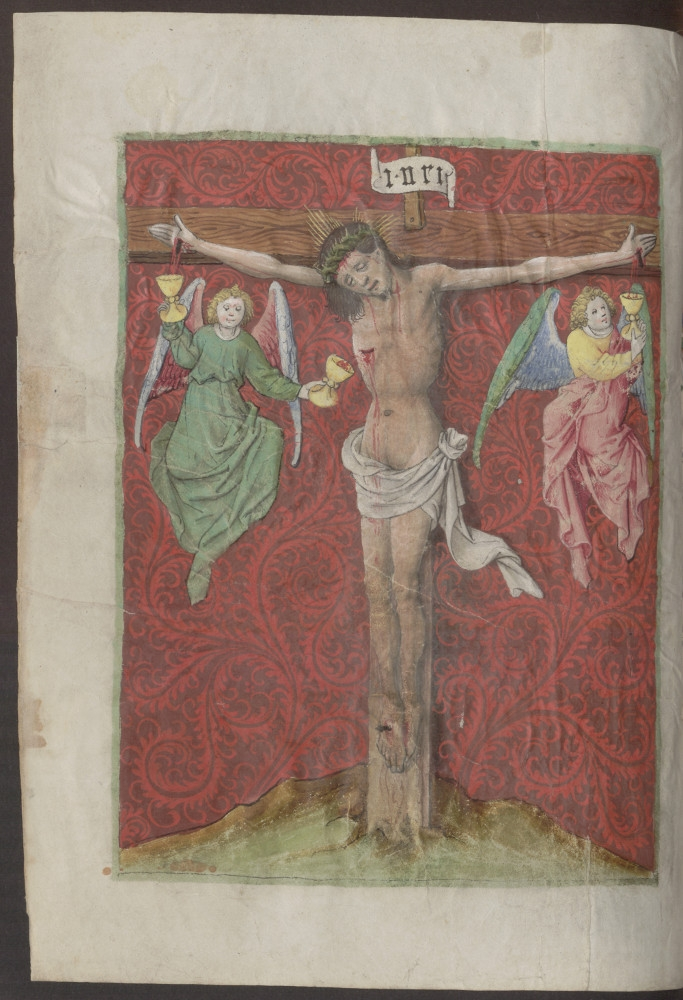 A miniature from Missale secundum notulam dominorum Teutonicorum (cart 263 verso), depicting Christ's crucifiction. From Biblioteka Gdańska PAN, Poland.